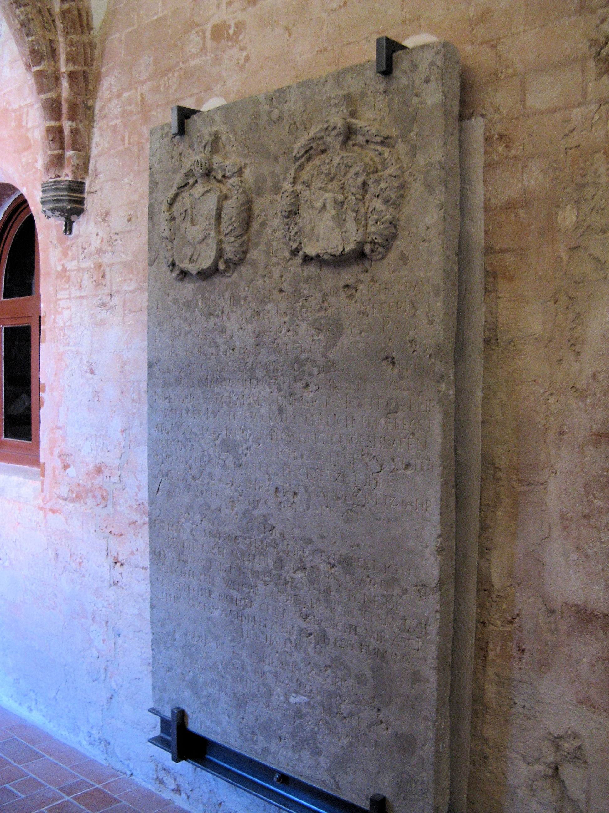 Ledger stone in the cloister of Monastery Dobbertin, district Parchim, Mecklenburg-Vorpommern, Germany